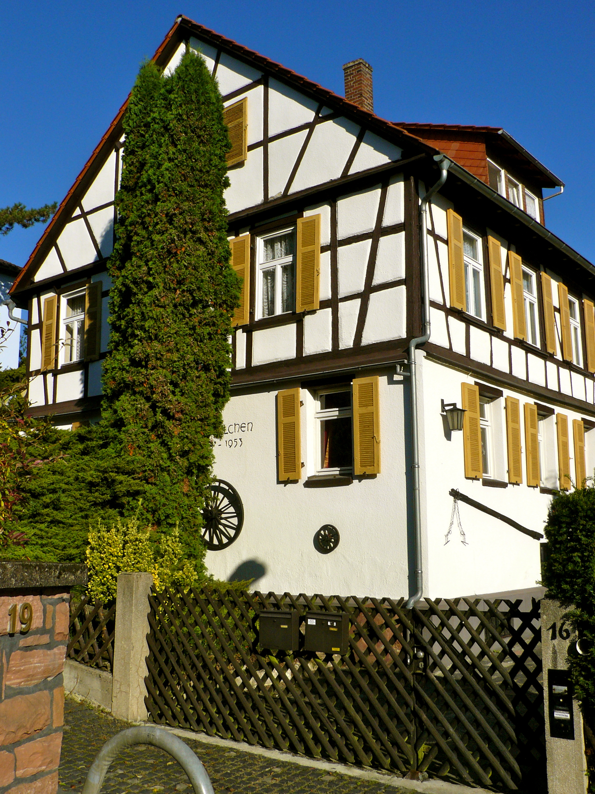 Im Muhlchen (1773), Hintergasse 16, Seckbach, Frankfurt, Hesse, Germany (former local mill)